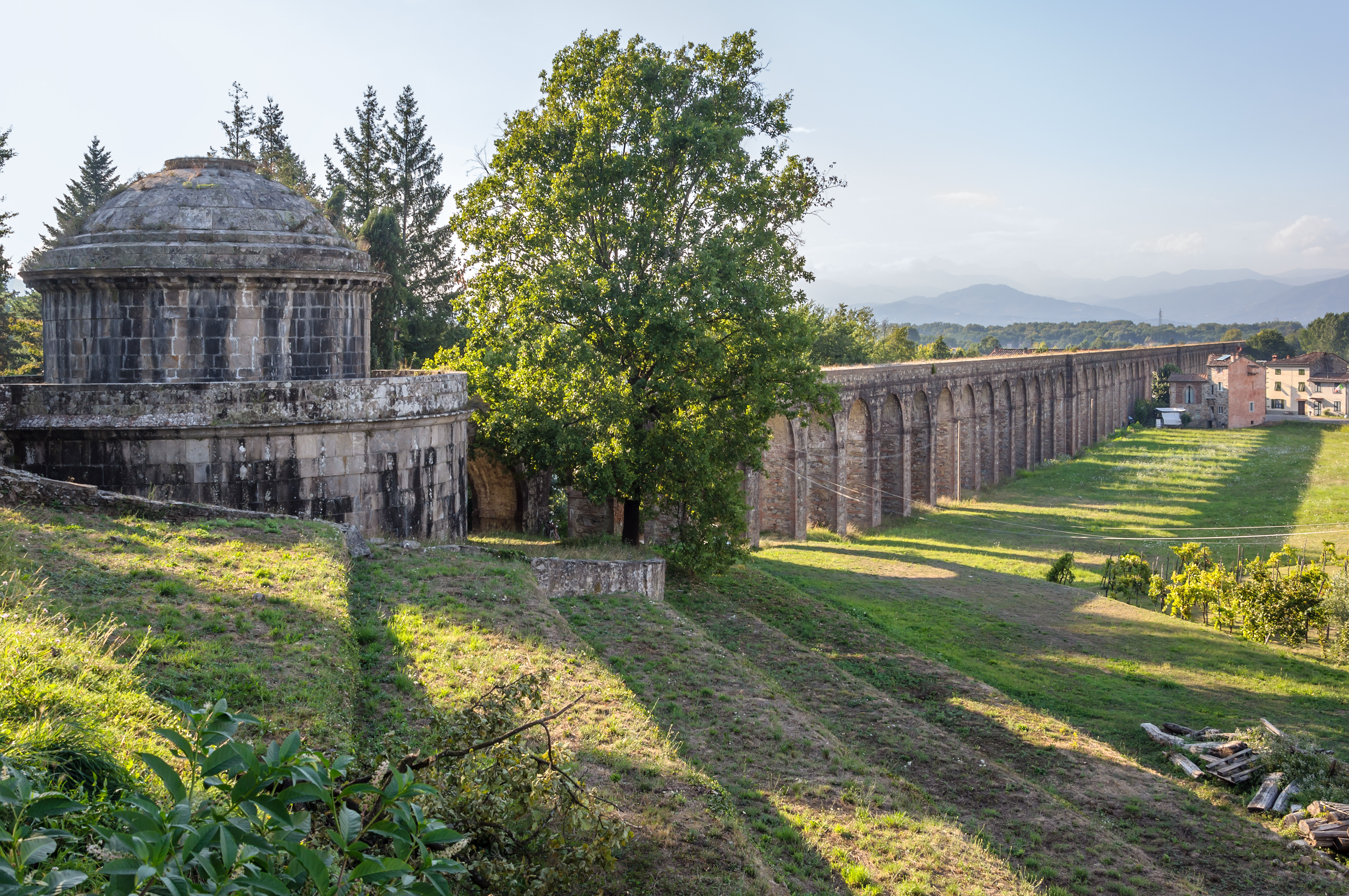 The aqueduct of Lorenzo Nottolini near Lucca, Tuscany, Italy: the tempietto-tank of Guamo and the first archs.